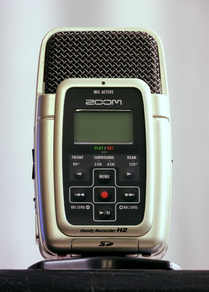 Audio recorder Zoom H2